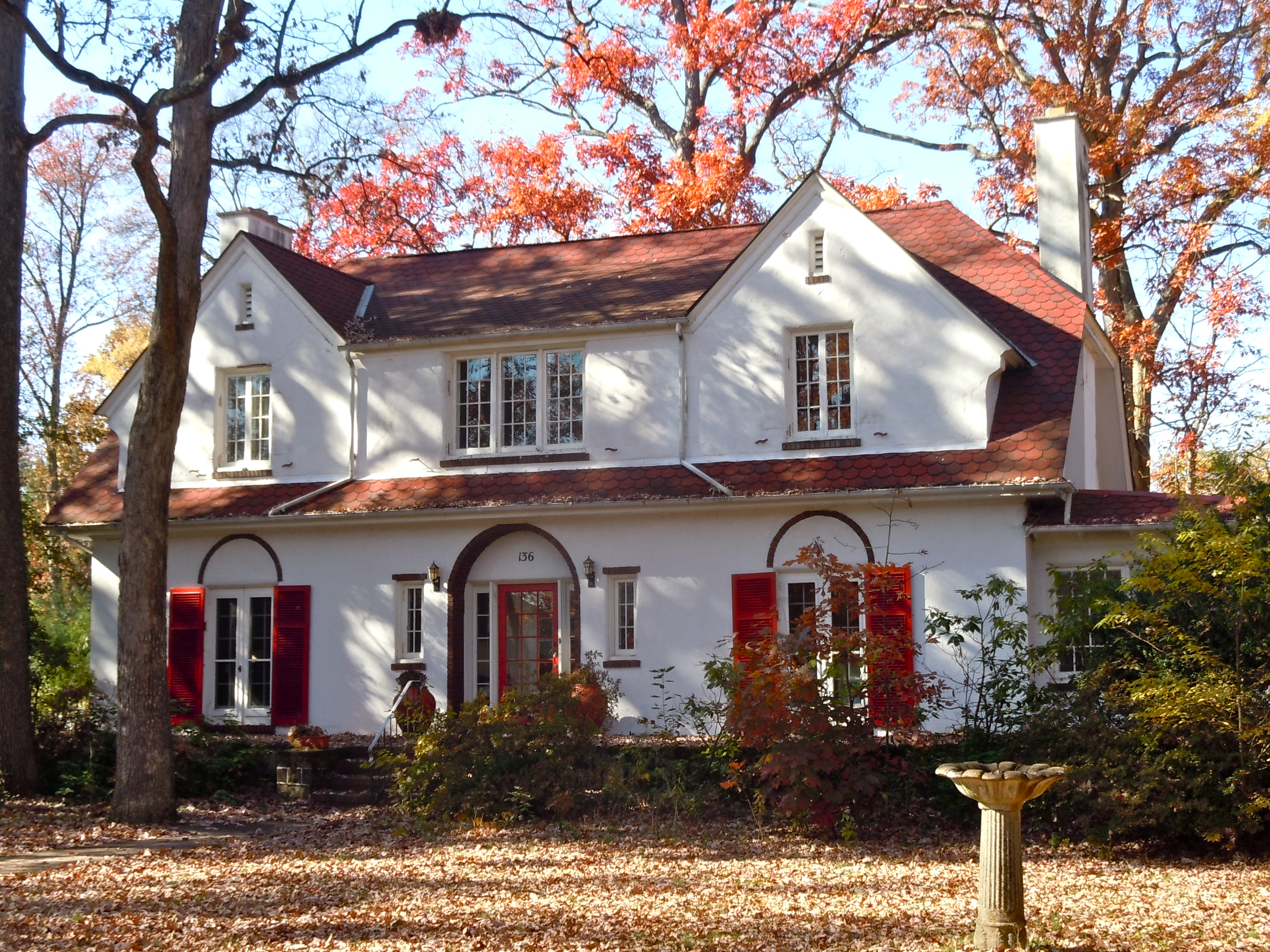 Oak Park Historic District on the NRHP since July 23, 1998. The historic district is roughly along Oak Park Road, Park Avenue, Oak Boulevard, Forest Avenue, and Squirrel Lane, Hatfield Township, Montgomery County, Pennsylvania. This house is at 136 Oak Boulevard.